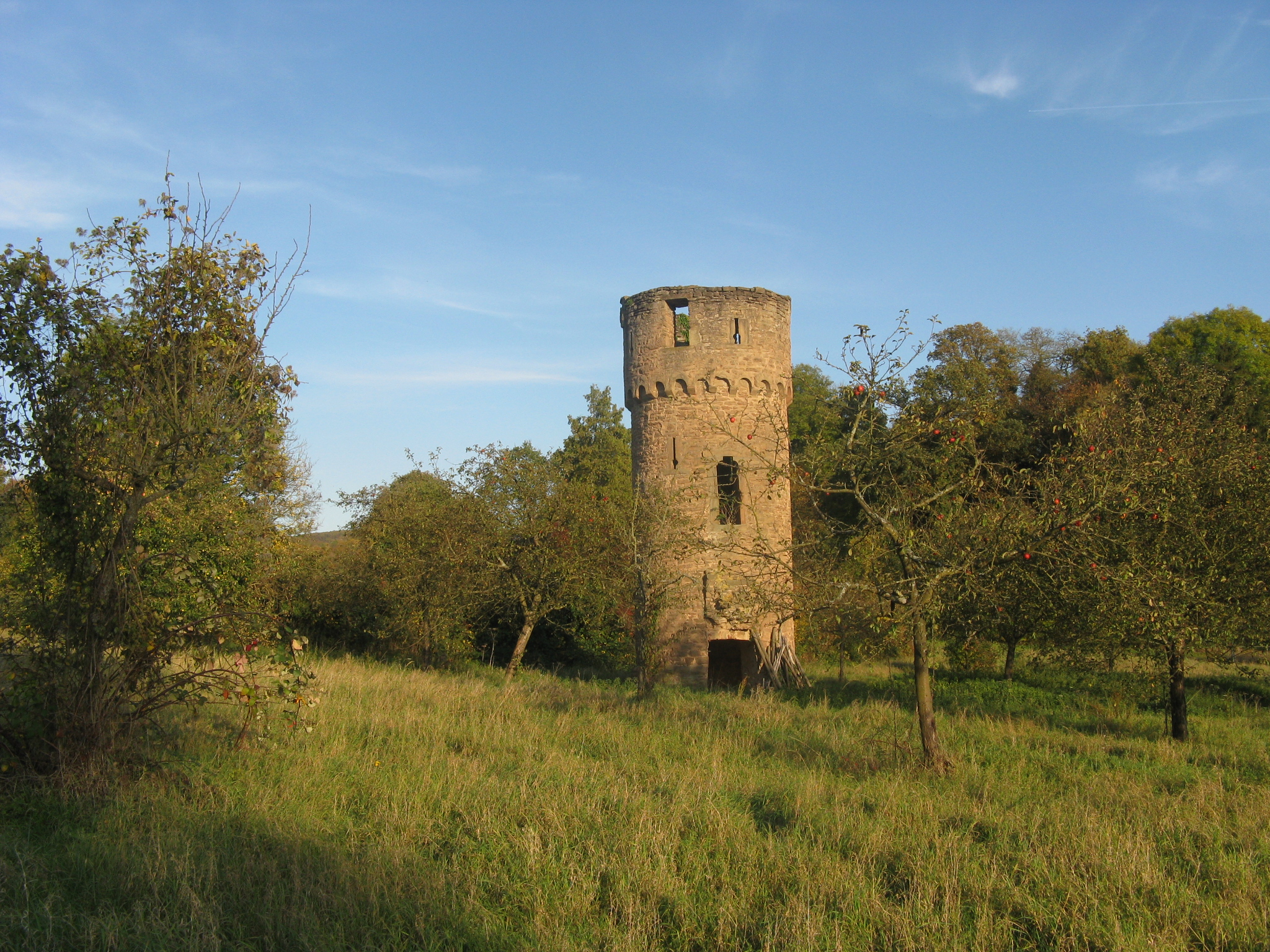 Former monastery "Ritterstift Odenheim"